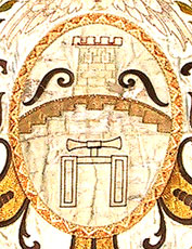 emblem on a flag in the local church August 2006 Lily106